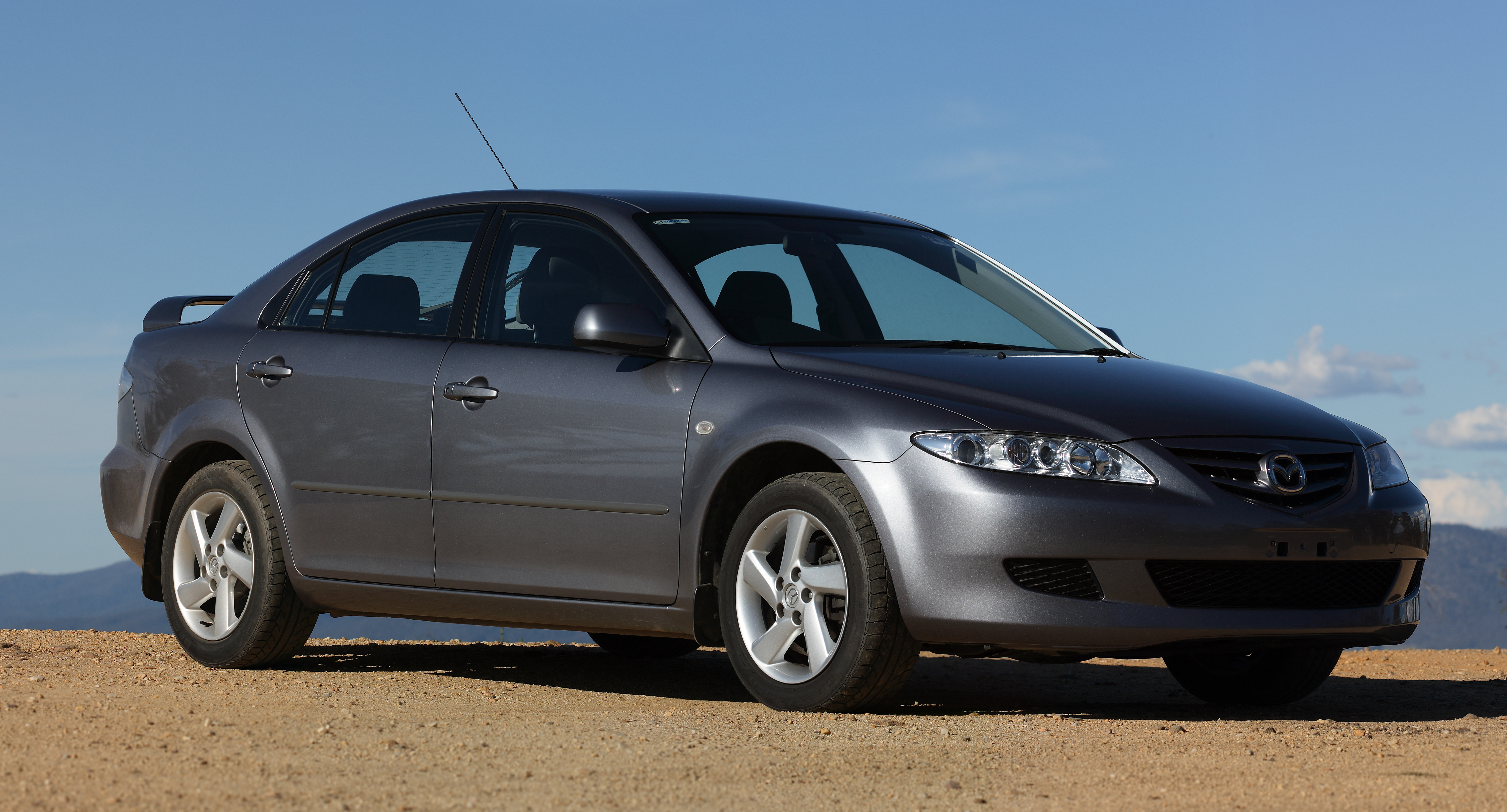 2003 Mazda6 GG Classic Hatch in metallic Titanium Grey. Photo taken at McMillan's Lookout, between Omeo and Benambra, Victoria, Australia.